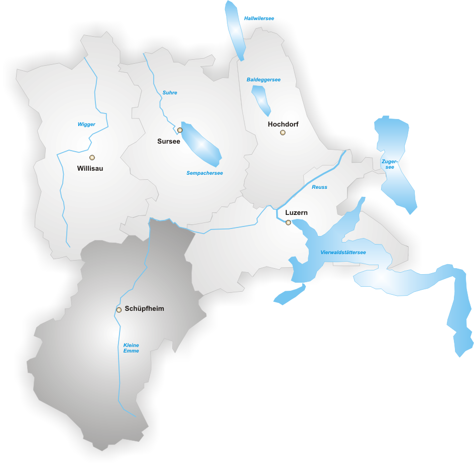 District Entlebuch